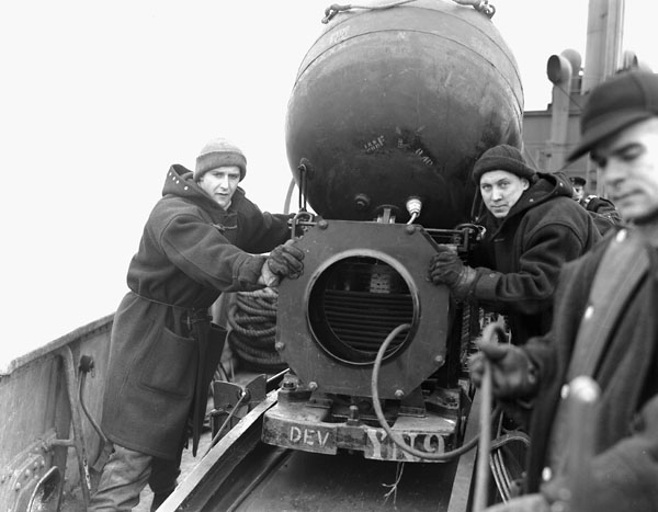 Unidentified ratings with a mine aboard the minelaying vessel H.M.C.S. SANKATY off Halifax, Nova Scotia, Canada, March 1941.